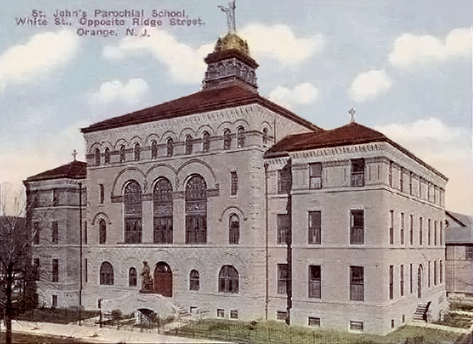 Columbus Hall, Orange, New Jersey, 1894. Former home of St. John's School and Columbus Theatre